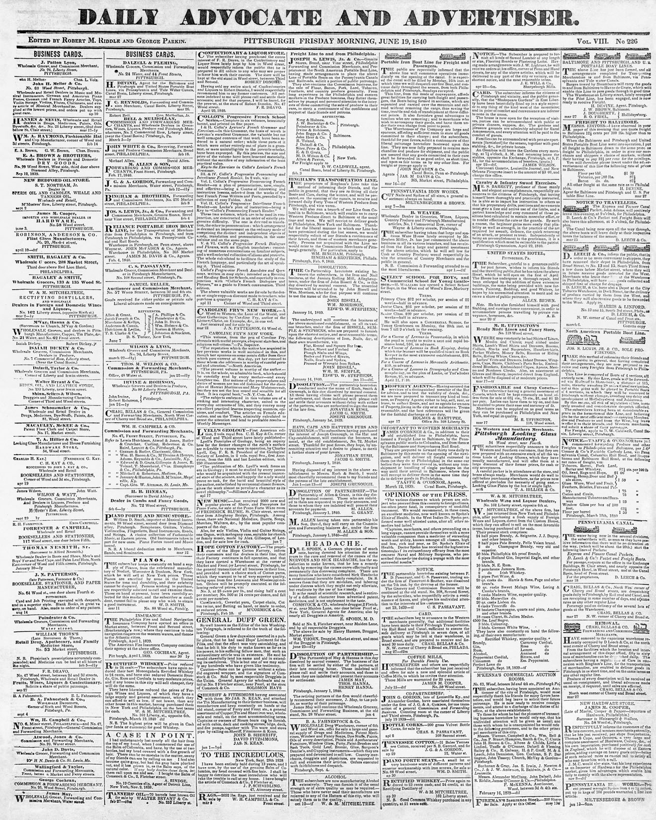 Front page, Daily Advocate and Advertiser (Pittsburgh, Pennsylvania, United States), 19 June 1840. Scan of microfilm printout.